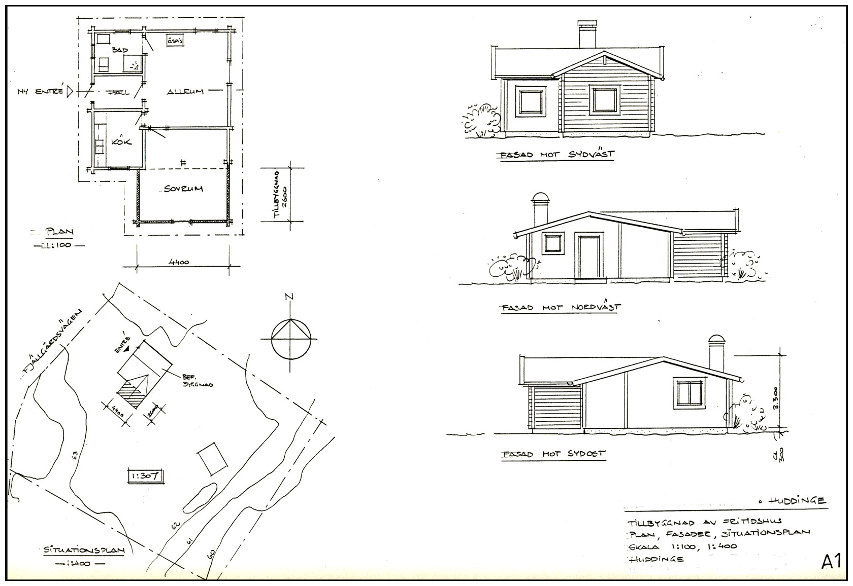 General arrangement drawing for a cottage in Sweden